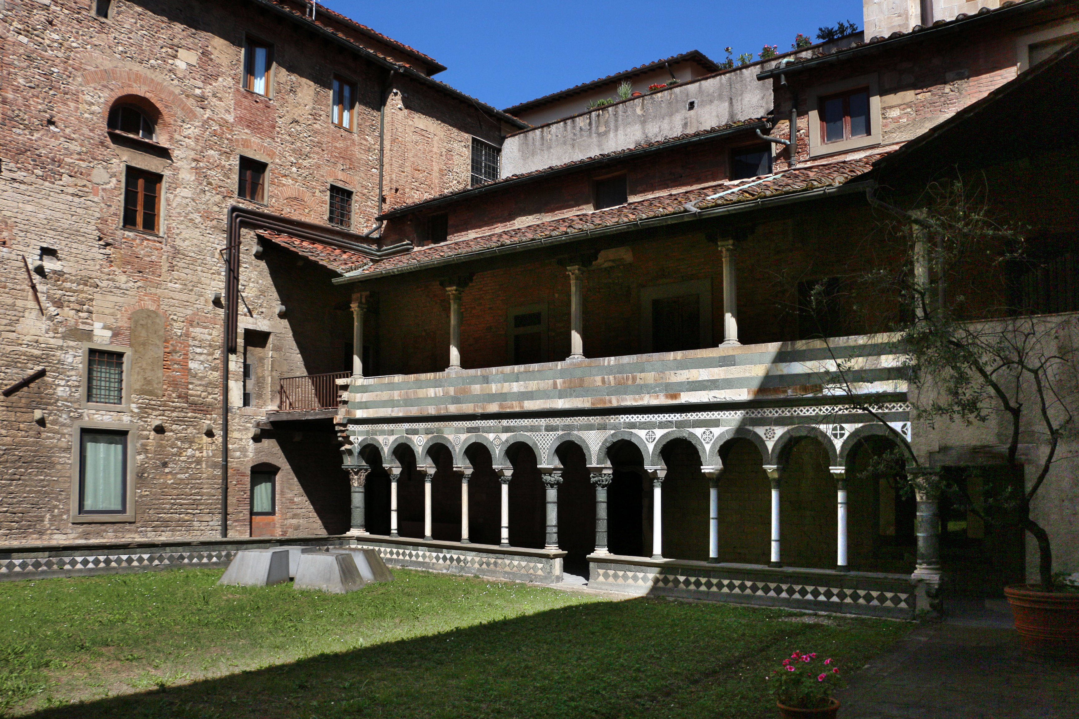 Prato, miscellany